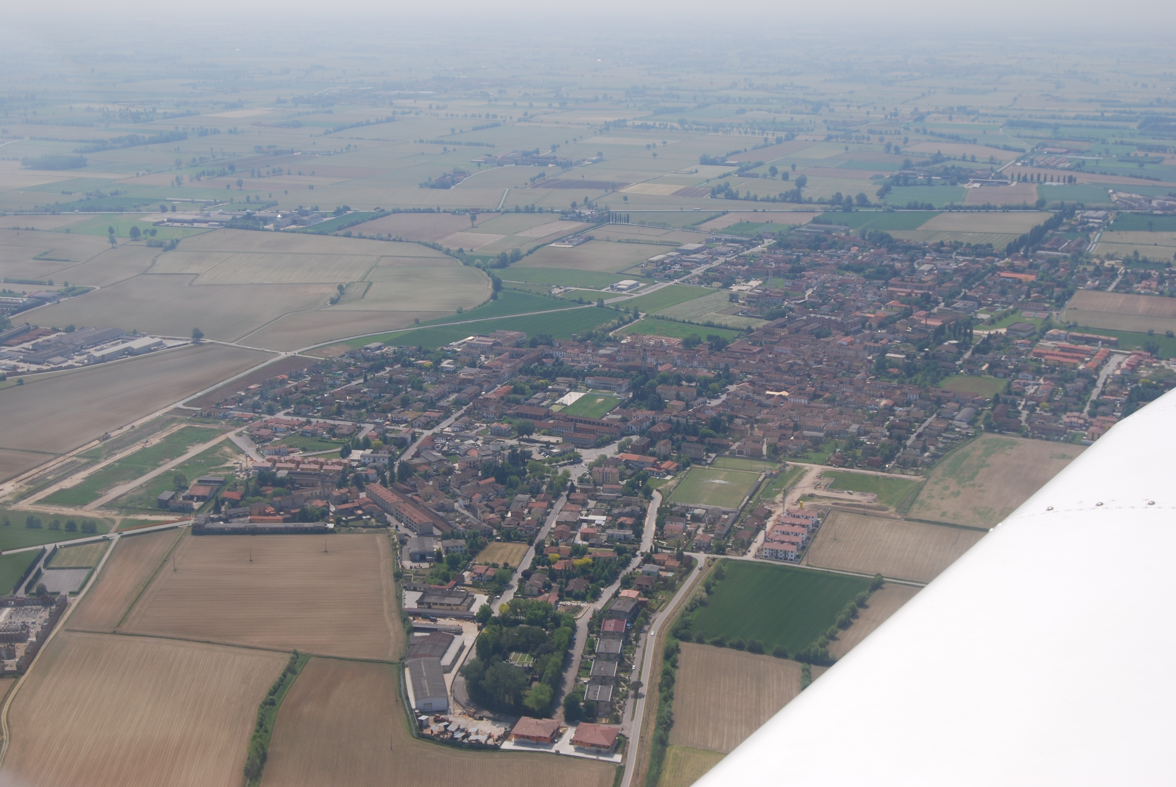 Air vieo of Vescovato